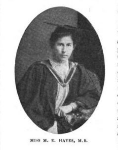 Miss Marie Elizabeth Hayes, M.D.